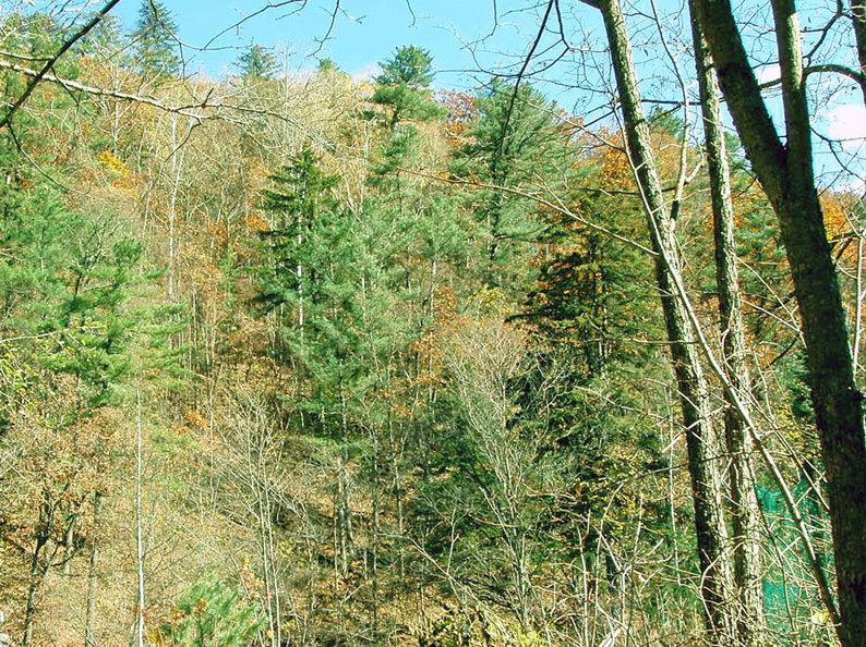 Taiga in Sikhote-Alin Mountains of Russian Far East.